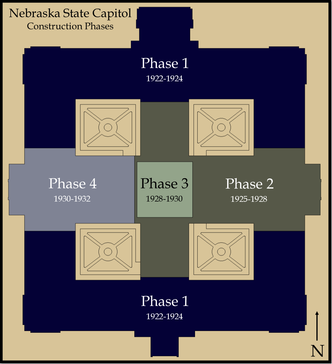 Visual representation of the four phases of construction of the Nebraska State Capitol, 1922-1932.